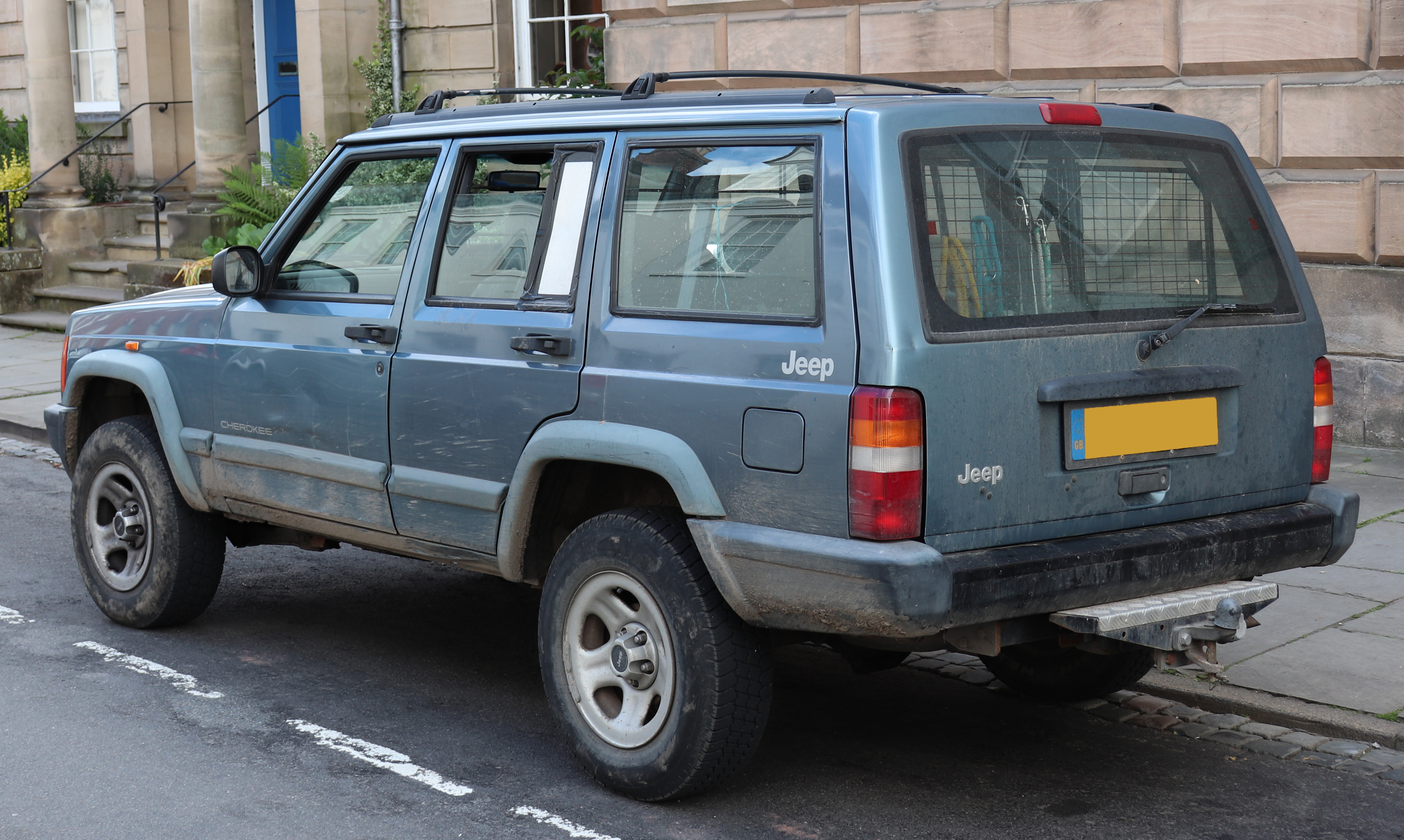 1997 Jeep Cherokee Sport 2.5 Rear Taken in Warwick